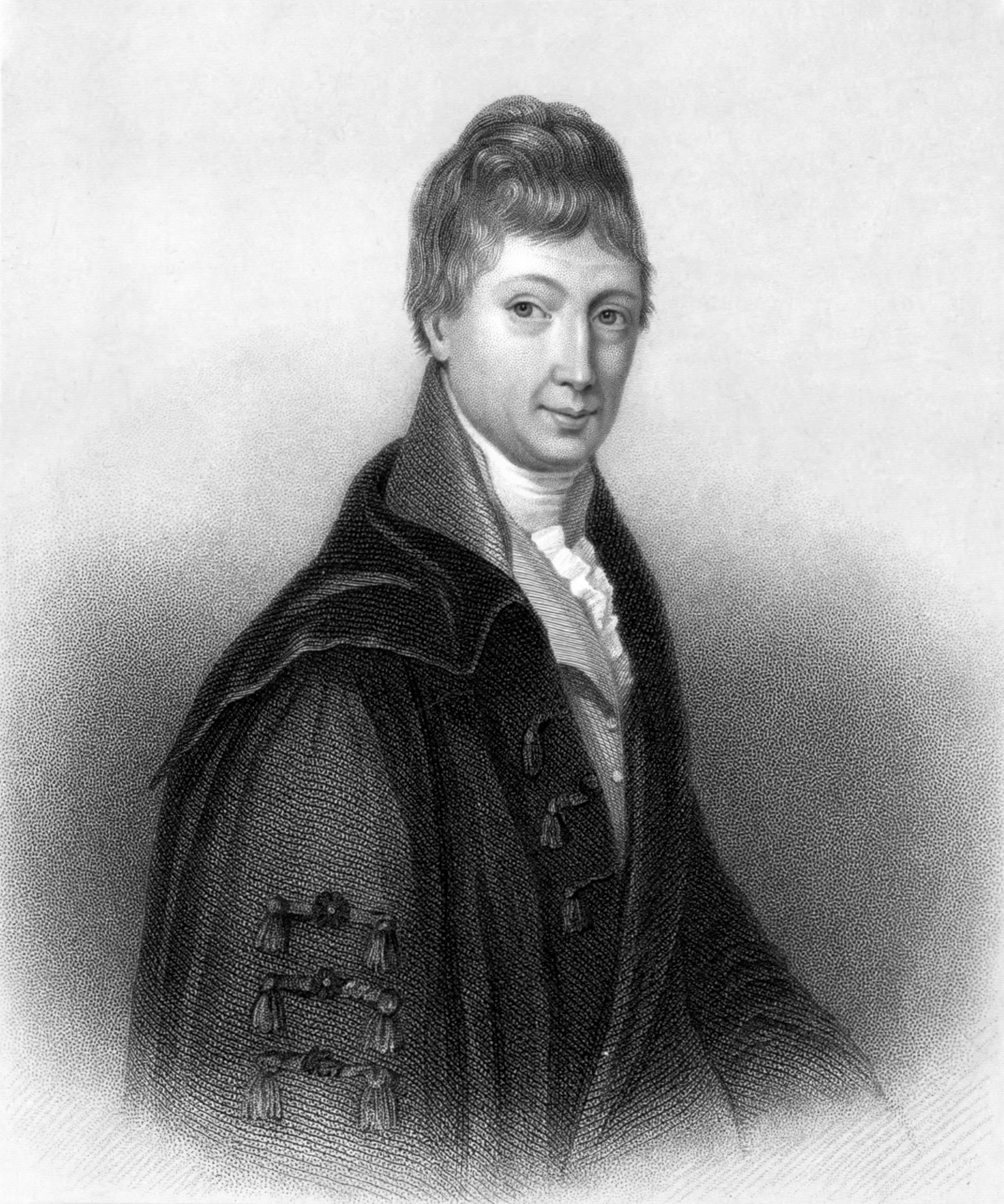 Engraving of Robert Hamilton, L.L.D.